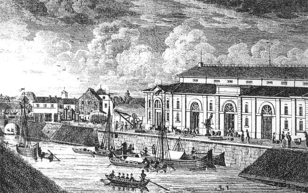 Royal customs office at the Wilhelm canal in Heilbronn. Lithography, ca. 1830